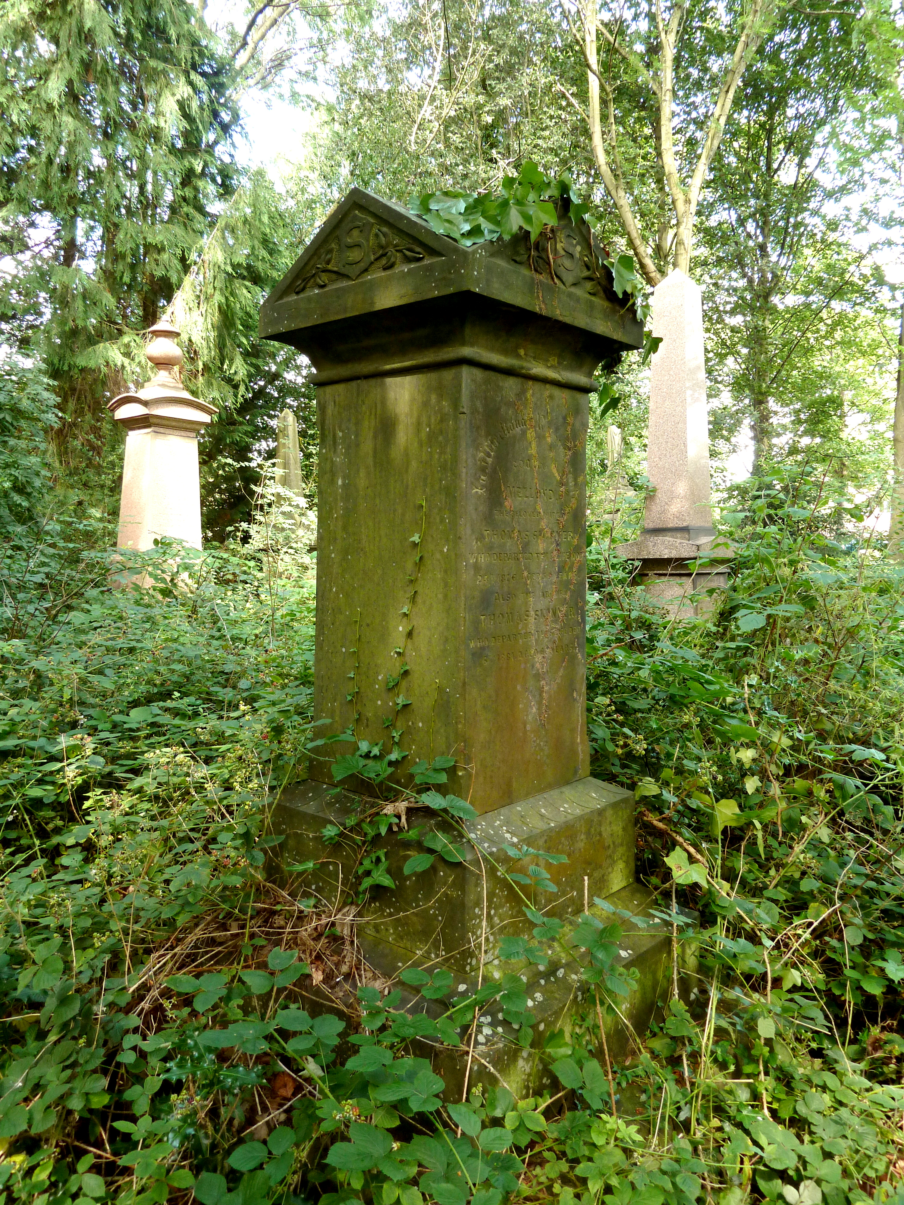 The gravestone of the inventor and etcher Thomas Skinner, in the graveyard of All Saints parish church, Ecclesall, Sheffield, South Yorkshire, England. The church was built in the 1780s, improved in 1843 and enlarged in 1864. A transept was added in 1907. The interior was reordered in 1964 and 1997. As of 2019 many of the 18th and 19th century gravestones remained, and the graveyard was still open for burials.